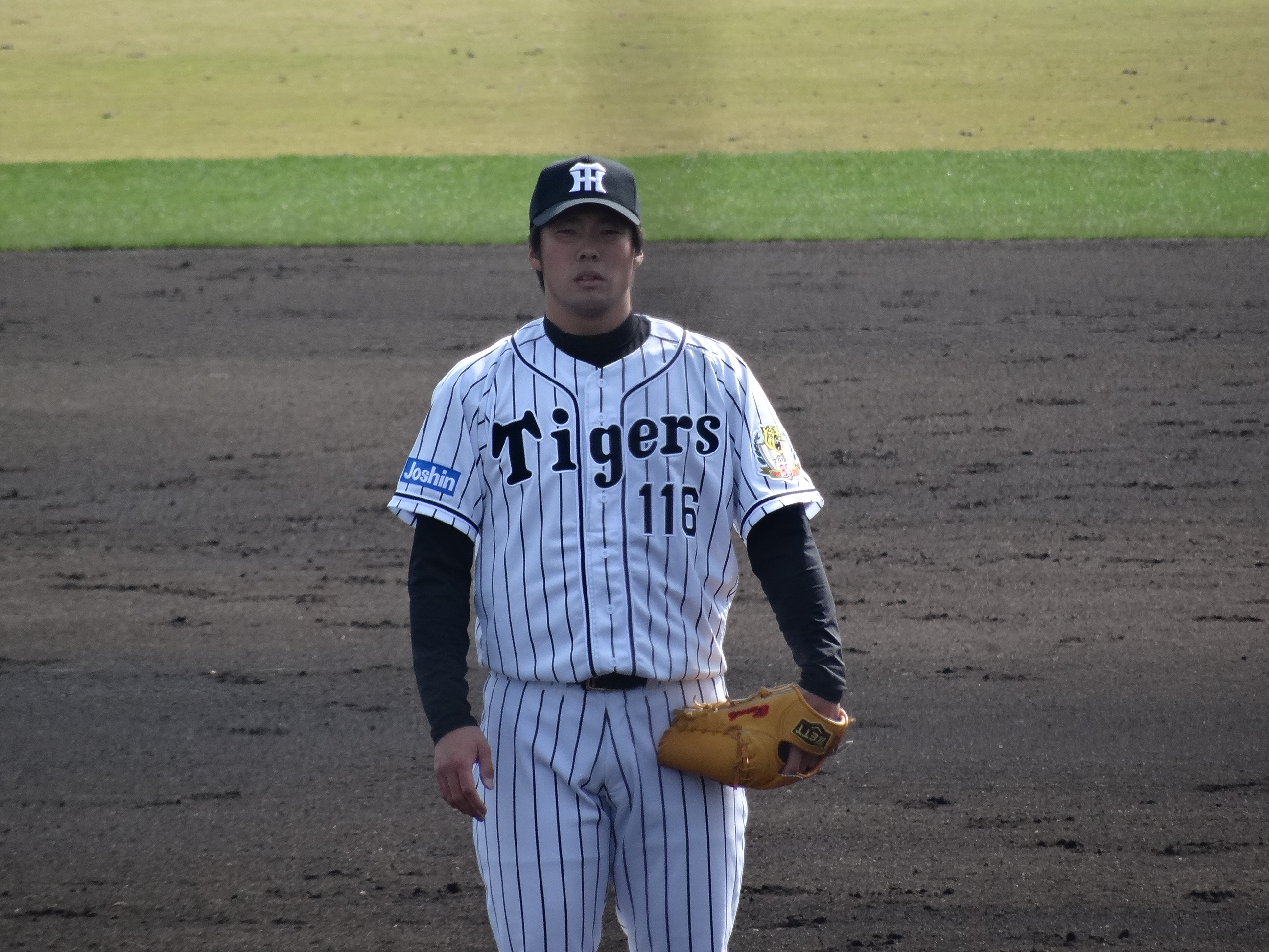 Kojiro Tanabo, pitcher of the Hanshin Tigers, at Hanshin Naruohama Baseball Ground.